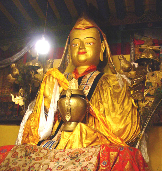 Author: Kosi Gramatikoff; Photography: Kosi Gramatikoff; Tibet (2005), His Holiness The Fifth Dalai Lama Lobsang Gyatso.